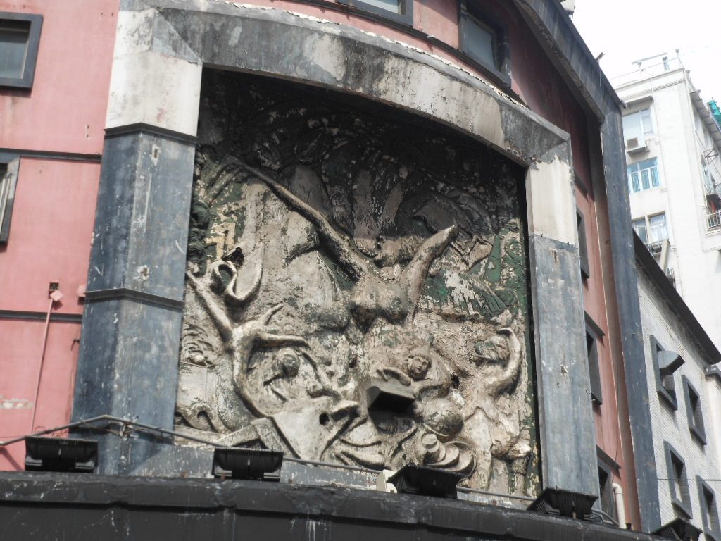 "Diaochan Charming Dong Zhuo" (蟬迷董卓), bas-relief on State Theatre, North Point, Hong Kong.